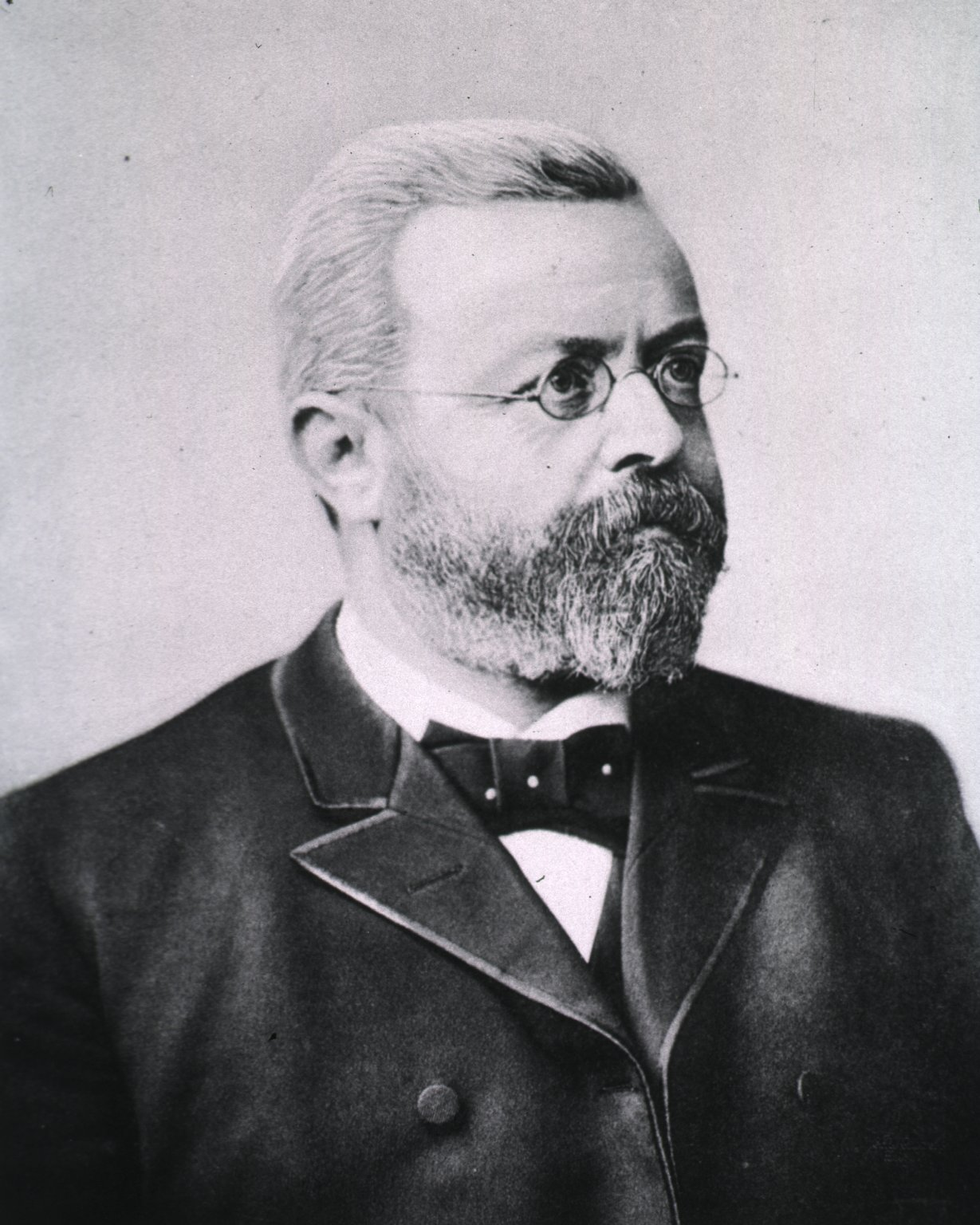 Otto Heubner